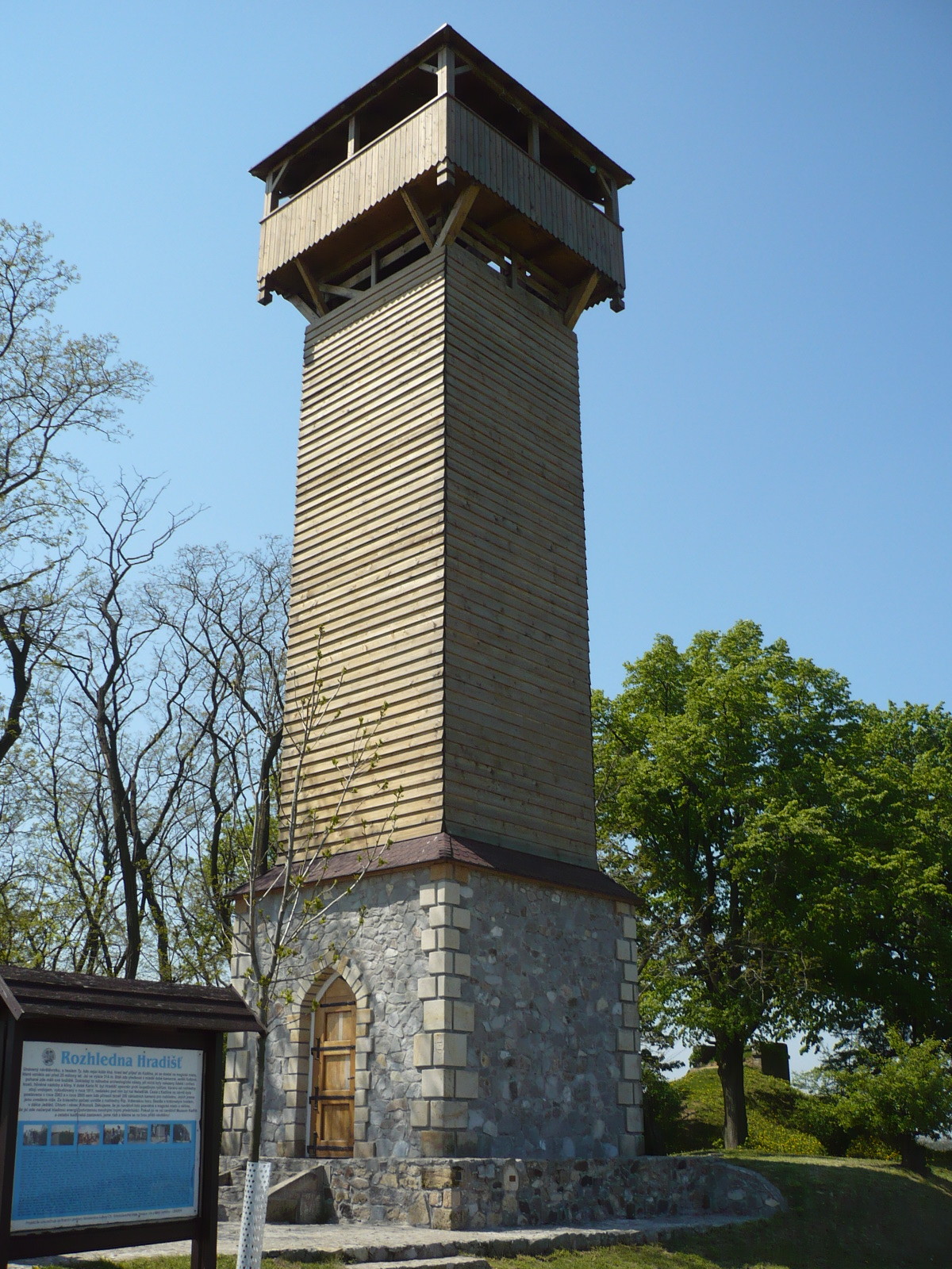 Observation Tower Hradist – near Mlada Boleslav, middle Czech